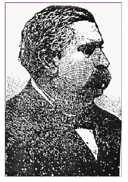 woodcut of Benjamin Le Fevre, Ohio politician, while he was in Congress.